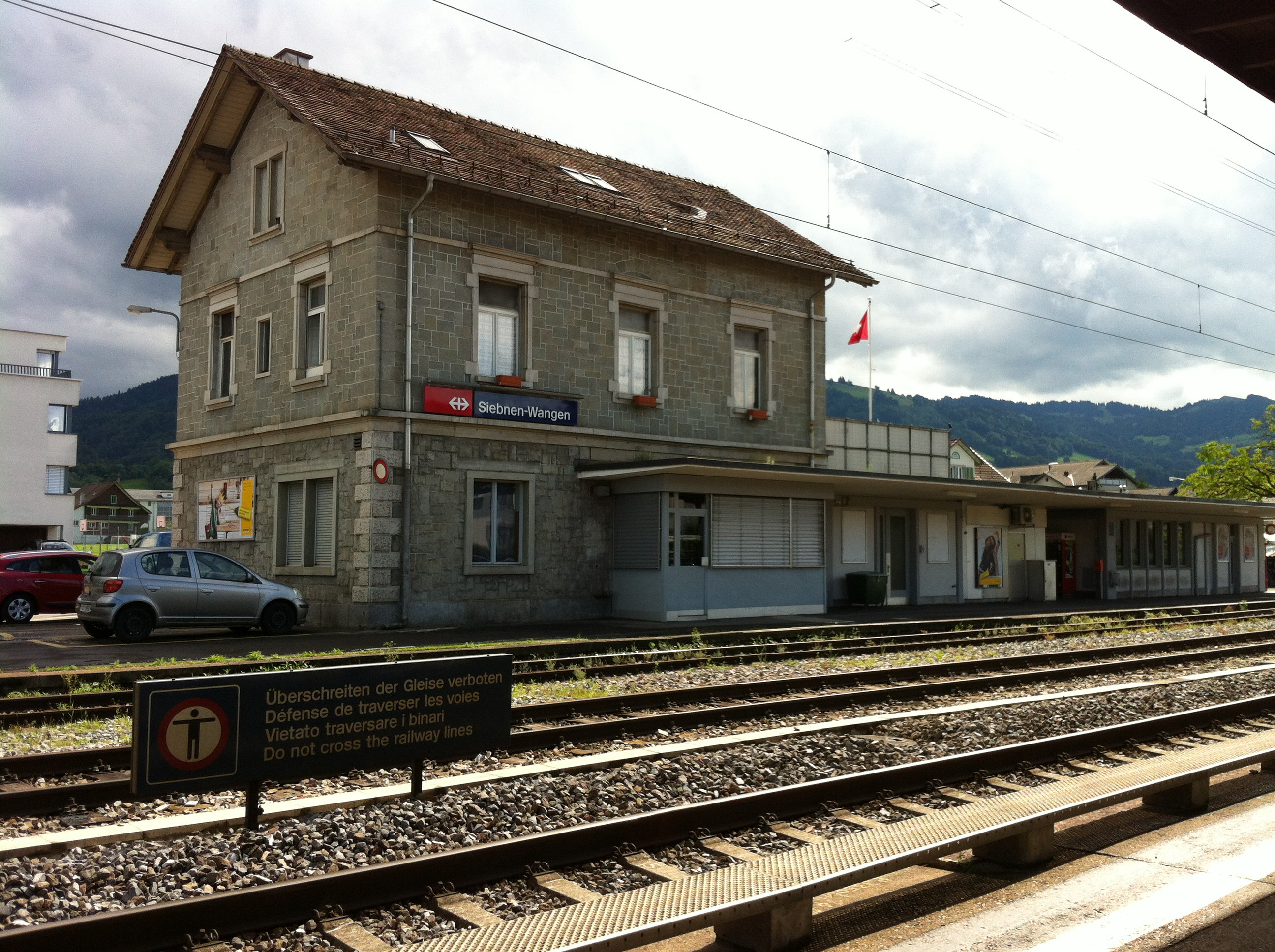 siebnen.wangen.bahnhof.